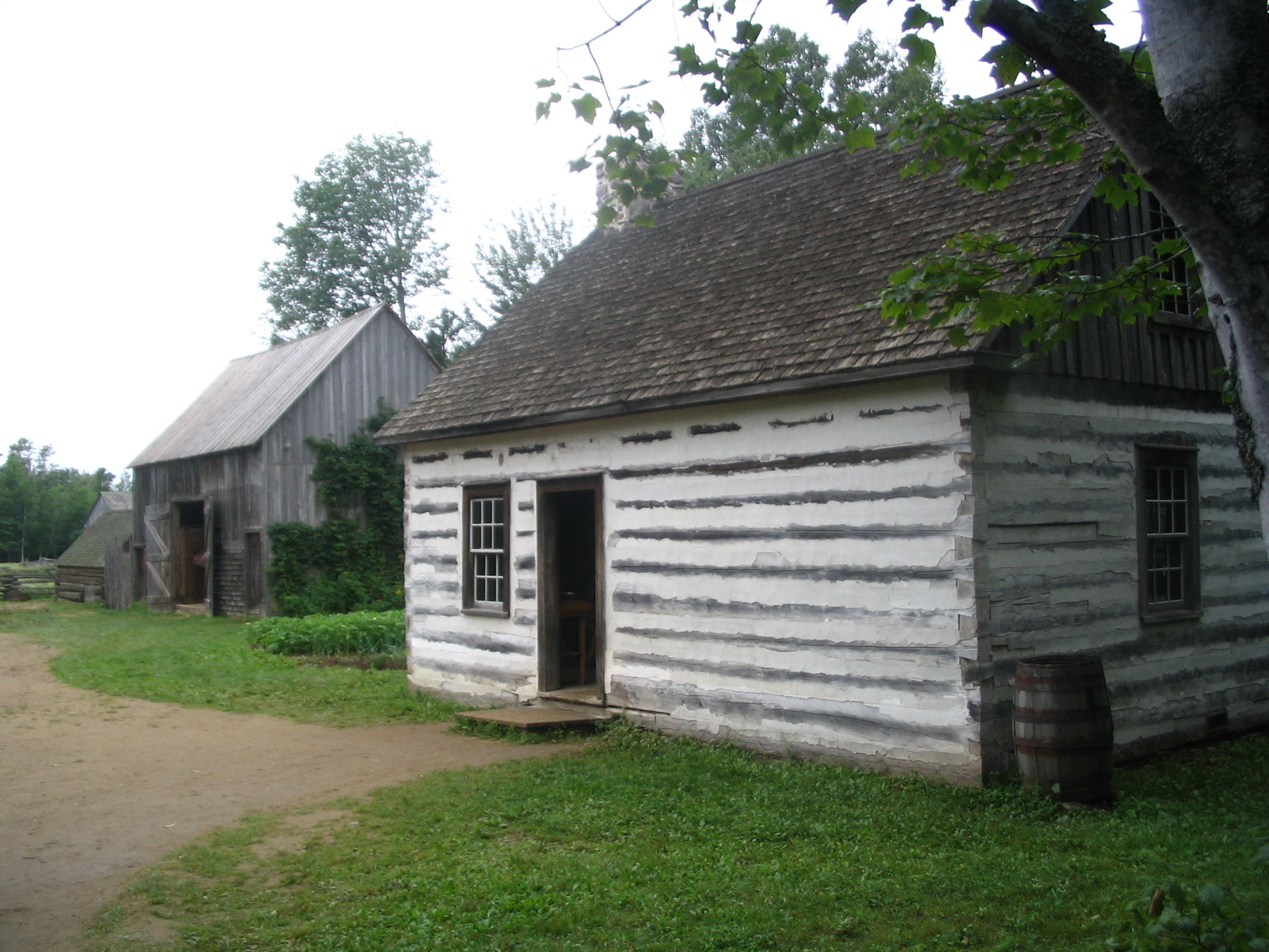 Ferme Mazerolle, in Village Historique Acadien, New Brunswick, Canada.